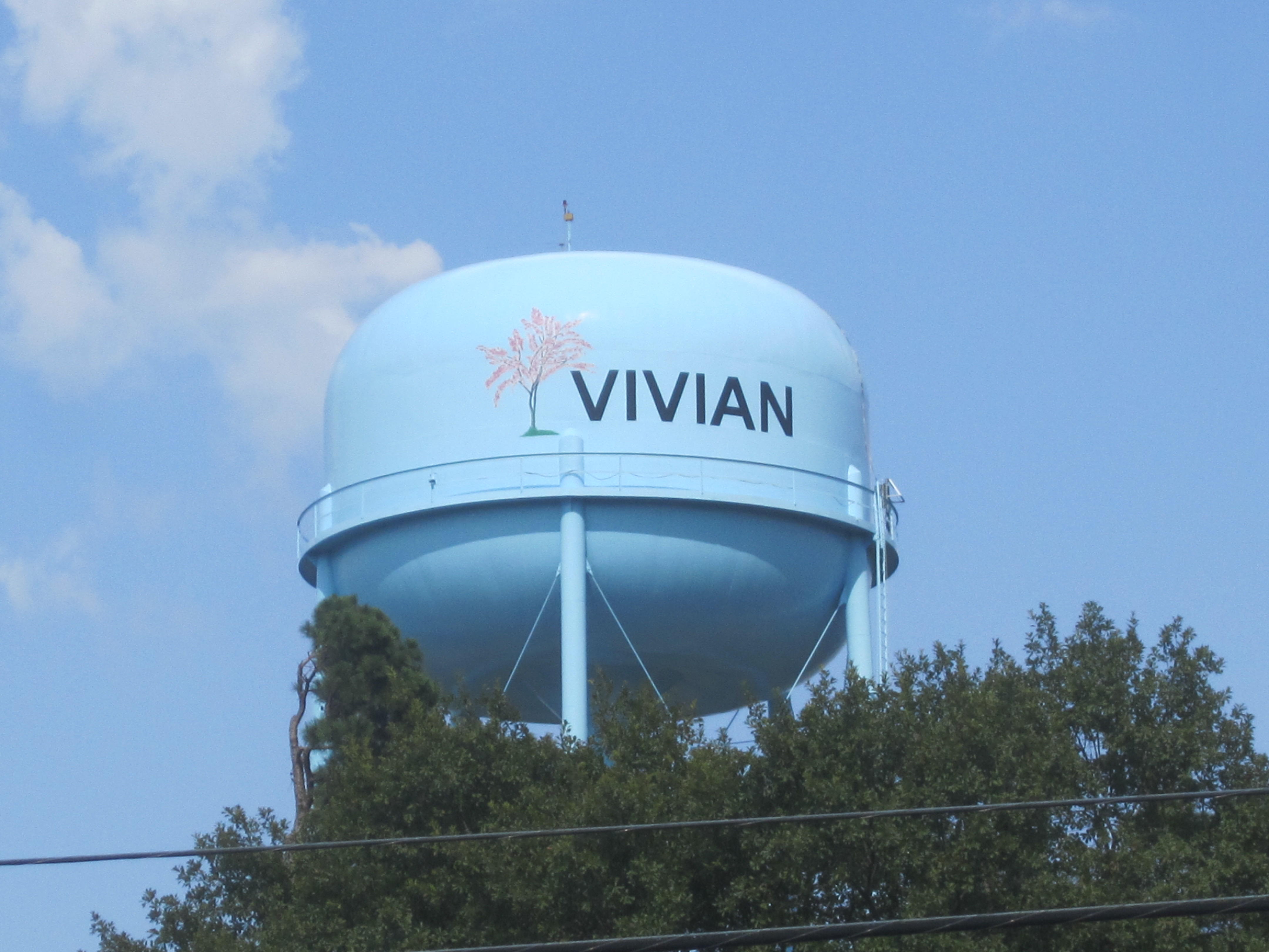 I took photo of Vivian Water Tower in Vivian, LA, with Canon camera.